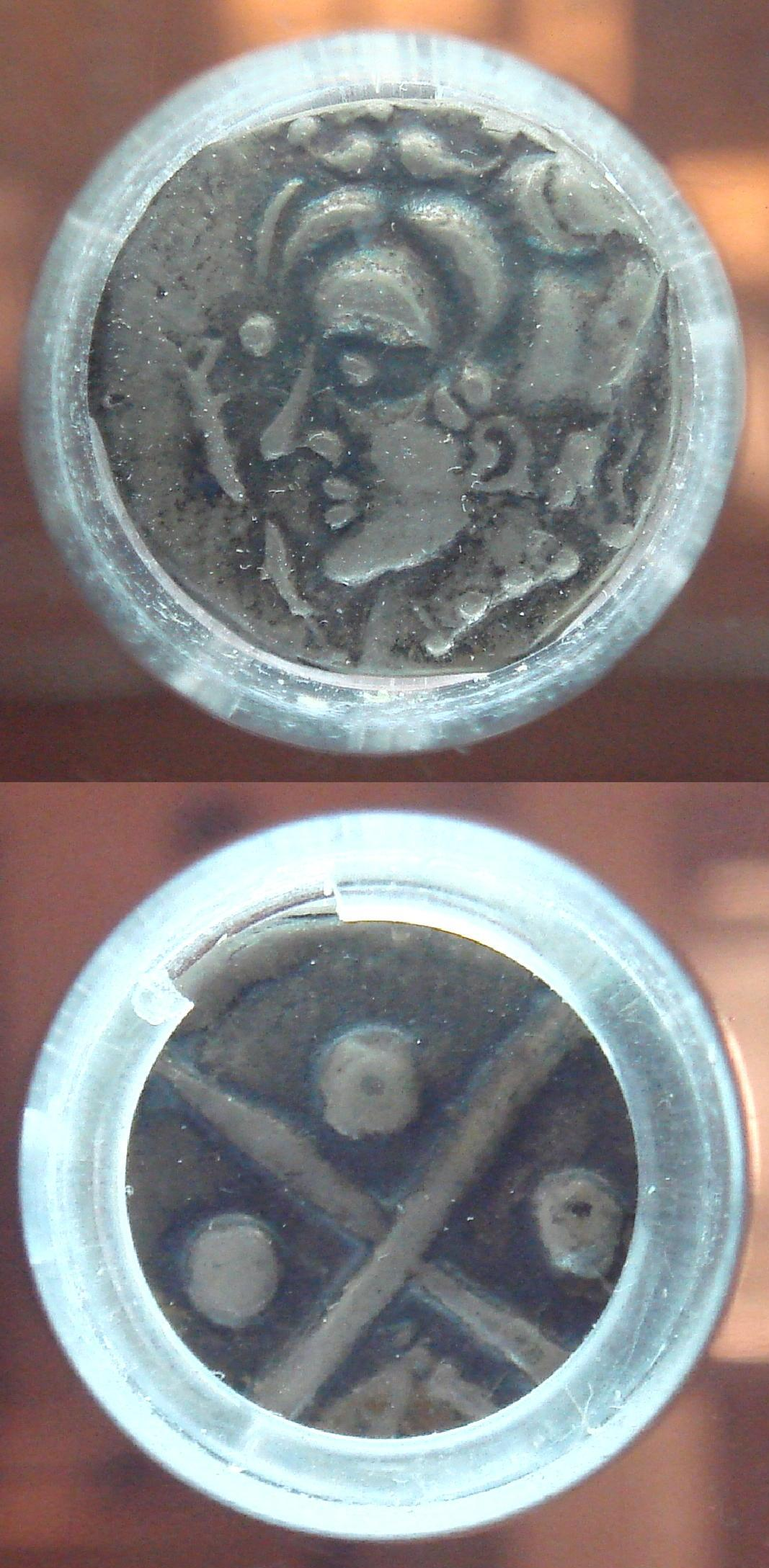 Volcae_Tectosages_silver_3580mg